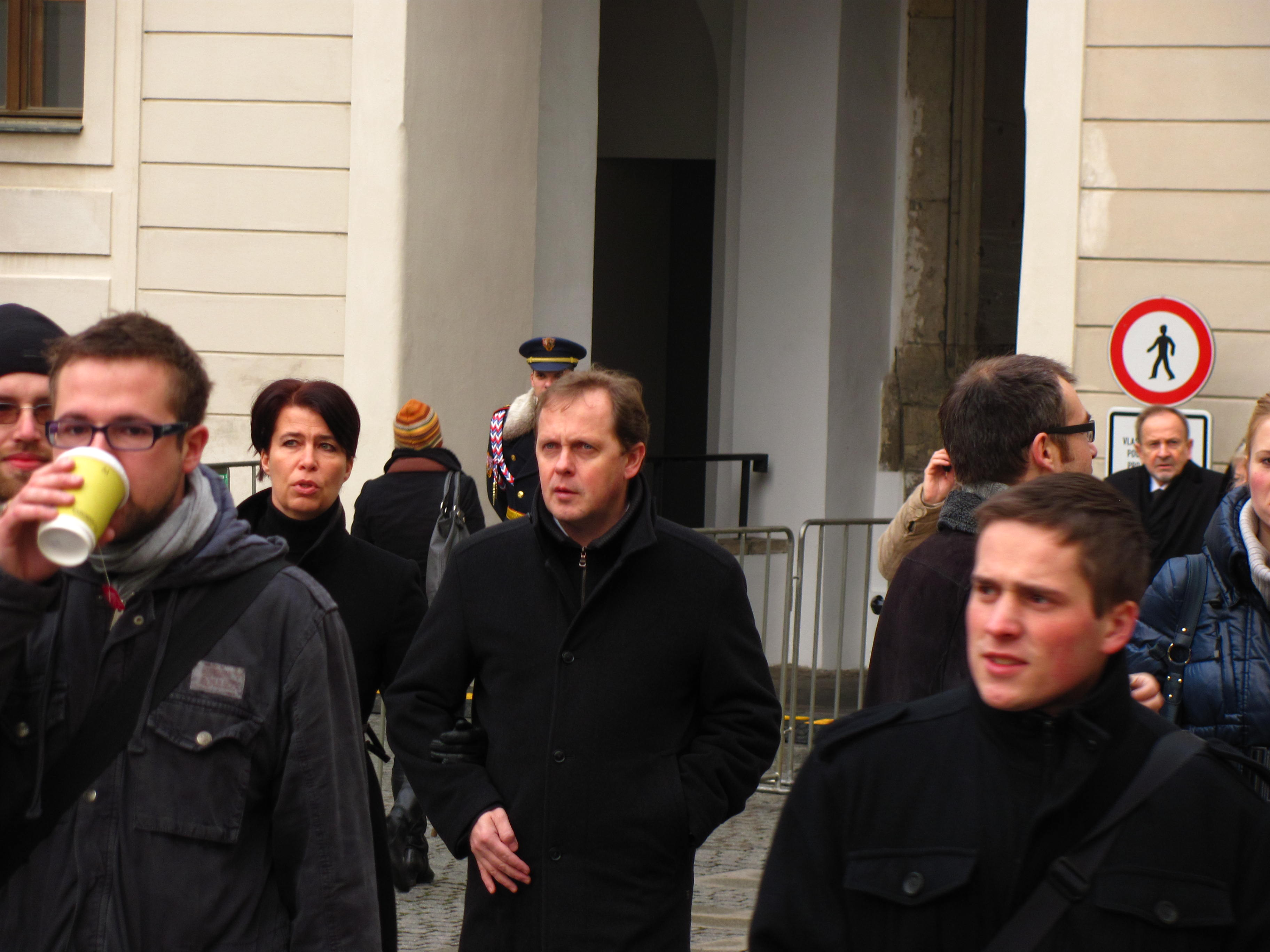 Petr Dvořák, Director of the Czech TV